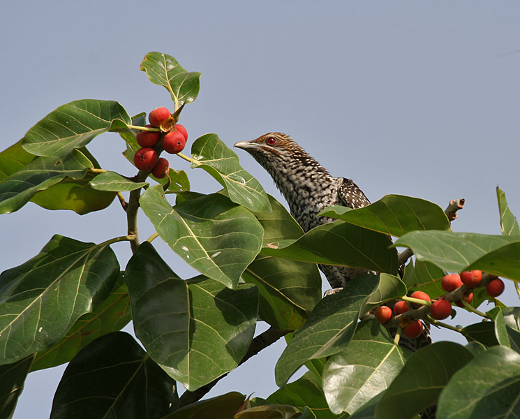 Asian Koel Eudynamys scolopacea - Female looking for ripe Banyan tree Ficus benghalensis fig in Hyderabad, India.